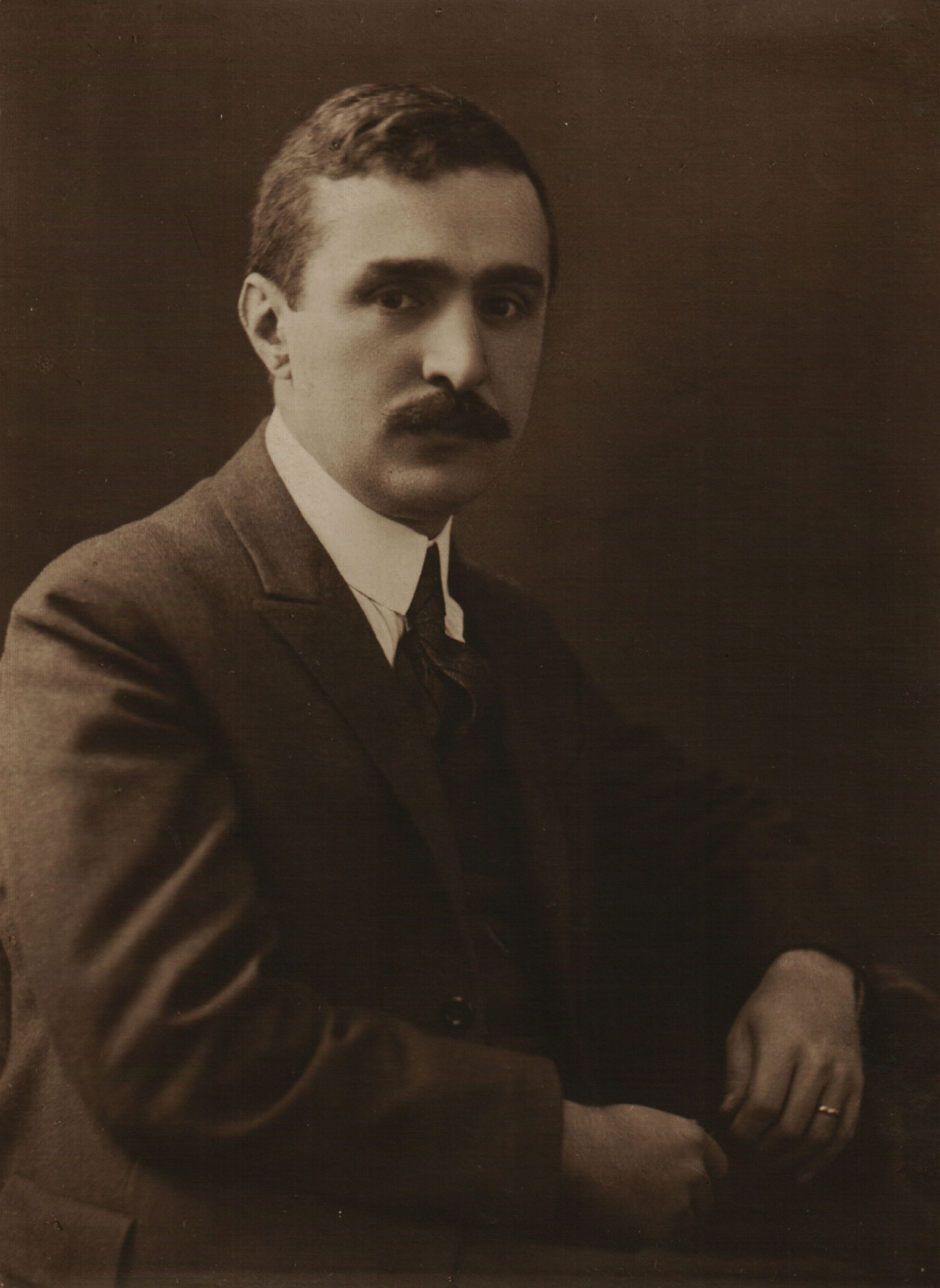 Bulgarian literary critic Vladimir Vasilev.